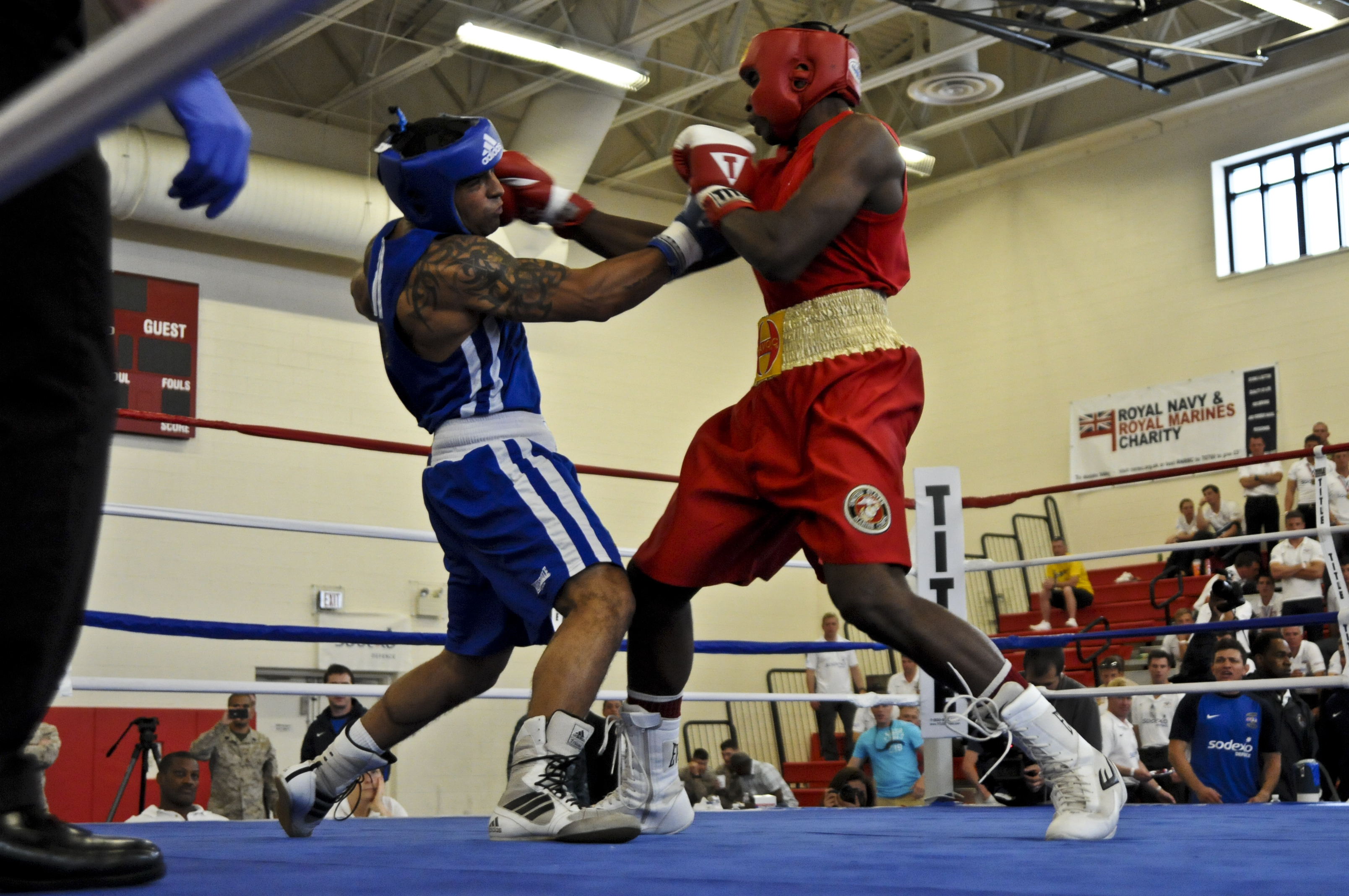 Darnell Price, a U.S. Marine, red trunks, and Anthony Graham, a British Royal Marine, blue trunks, exchange punches during the final event of the Virginia Gauntlet Sports Tour 2012 at Marine Corps Base Quantico, May 1. Price, a San Diego native, defeated Graham in a technical knockout in the second round.